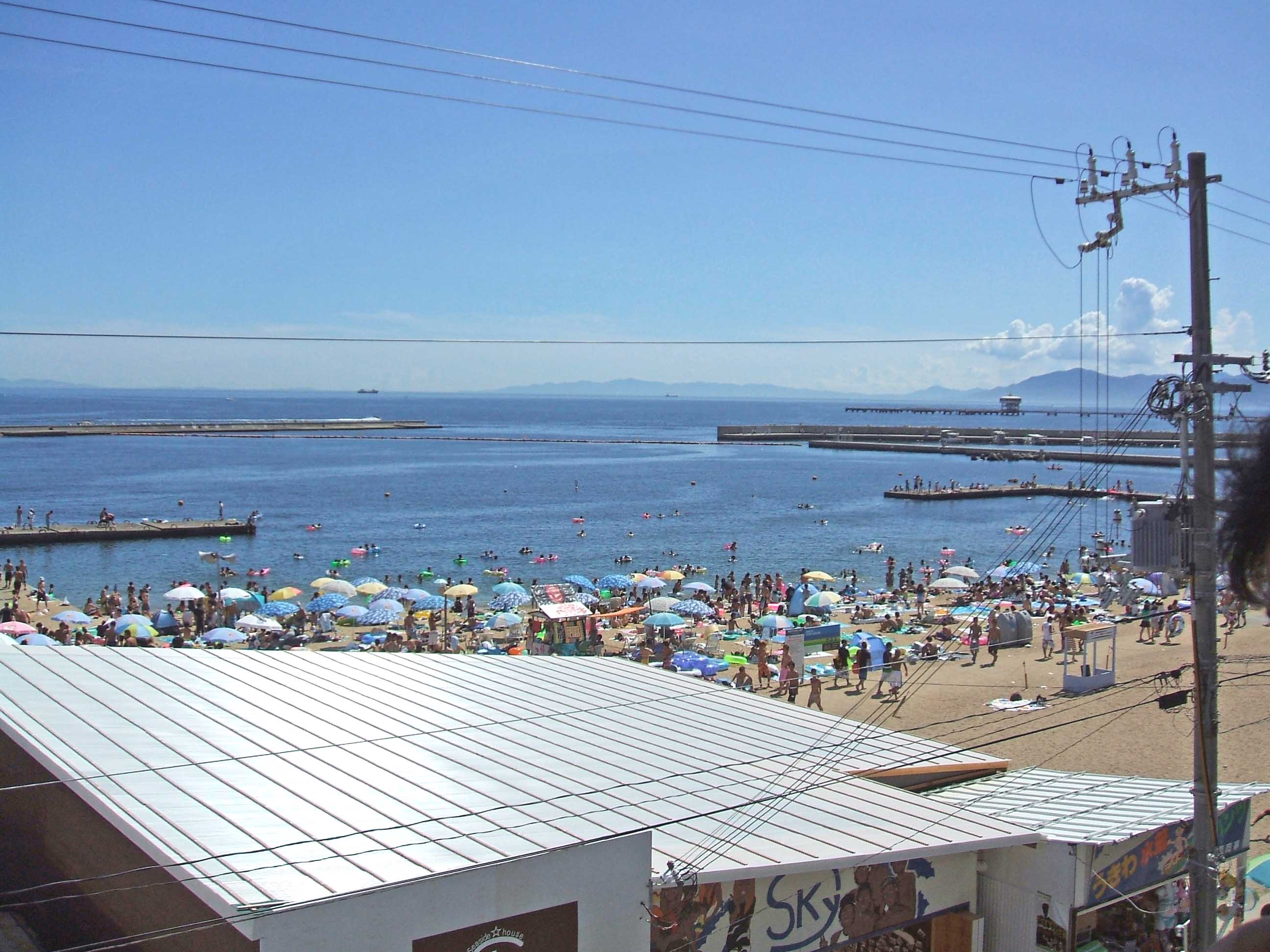 Suma Beach in Japan.